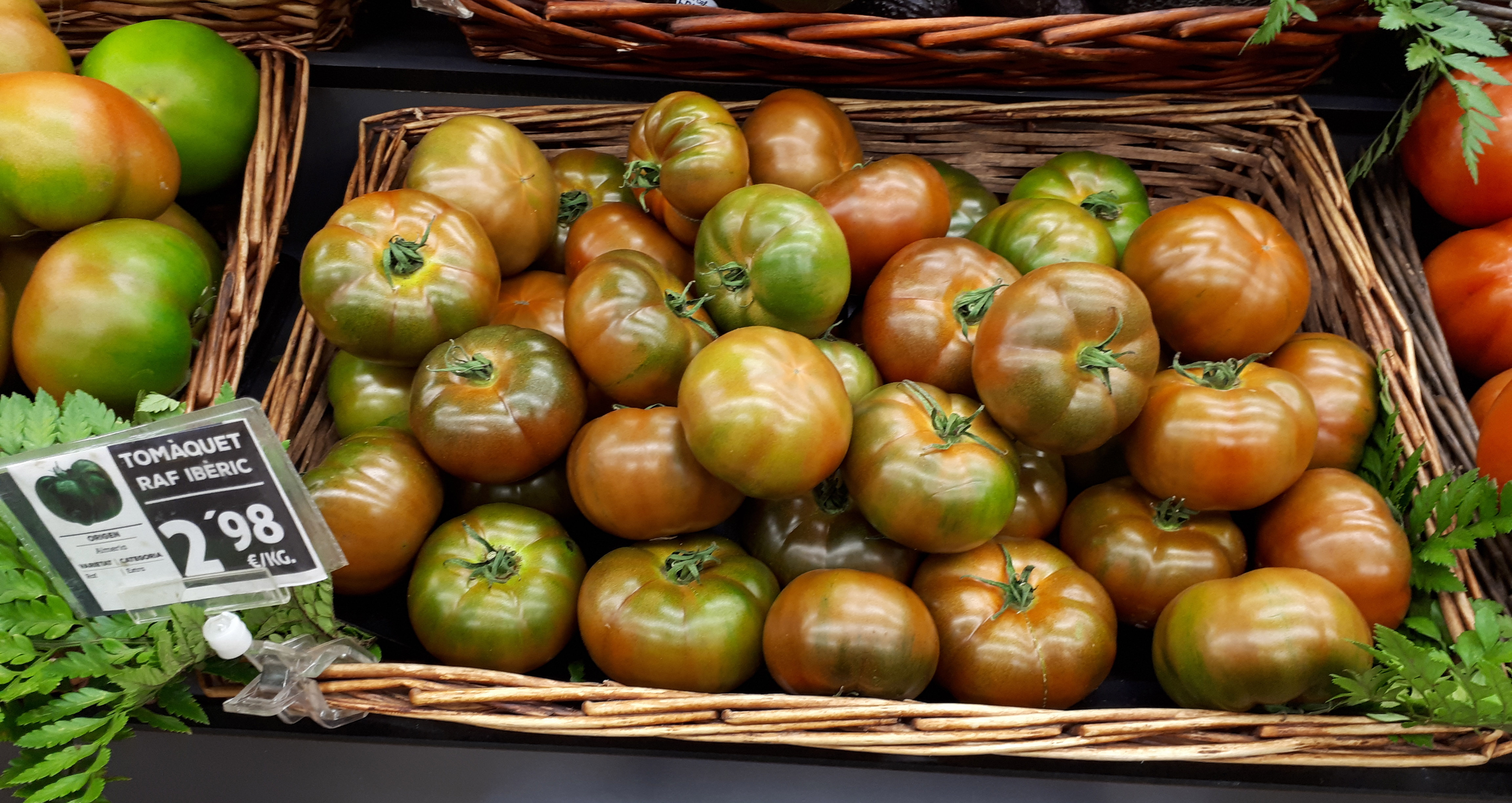 Tomate Ibérico